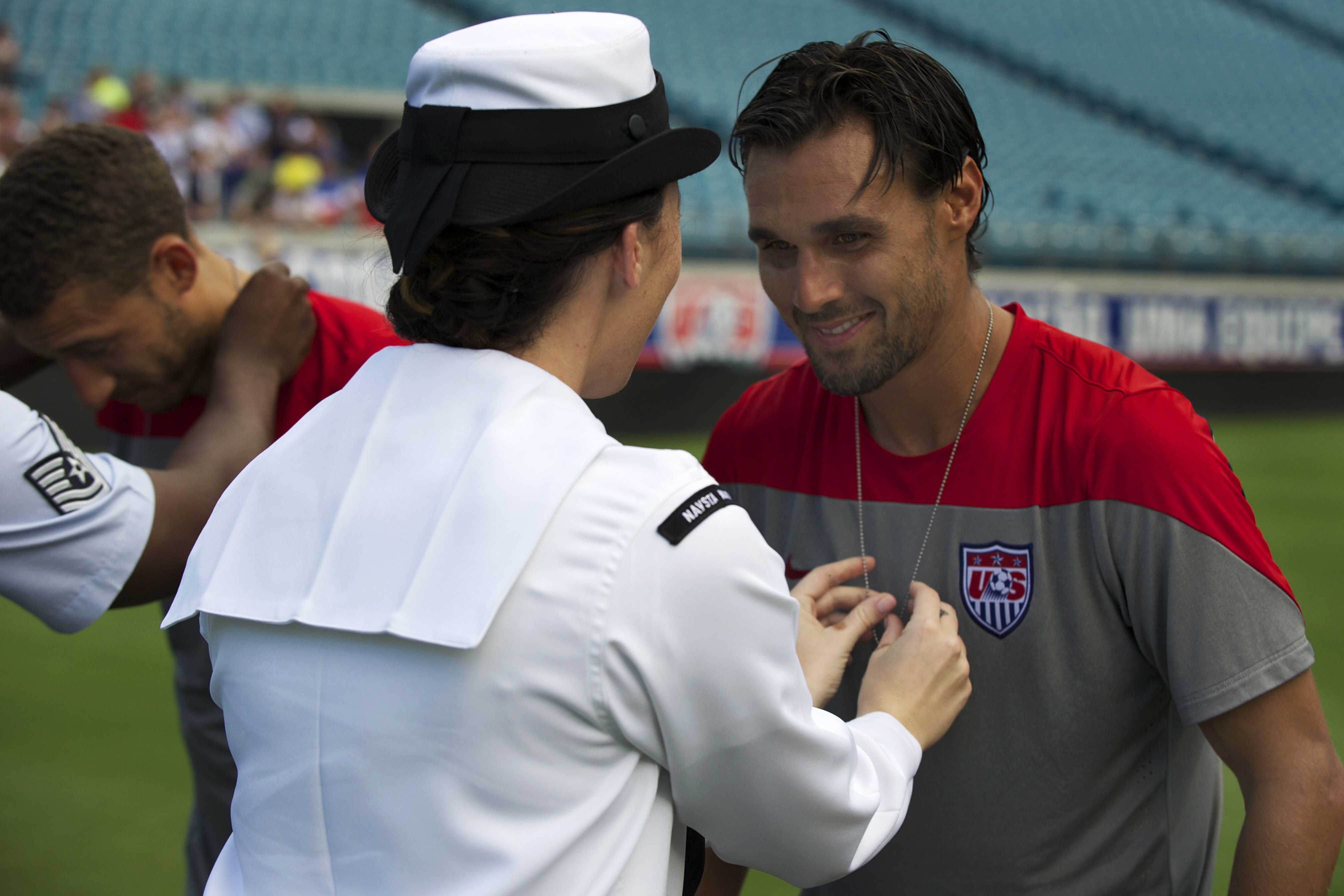 Navy Petty Officer 2nd Class Autumn Devine places a custom dog tag around the neck of Chris Wondolowski, forward player on the U.S. Men's National Soccer Team, during a ceremony at Everbank Stadium, Jacksonville, Fla., June 6, 2014. DOD photo by U.S. Army Master Sgt. Terrence Hayes